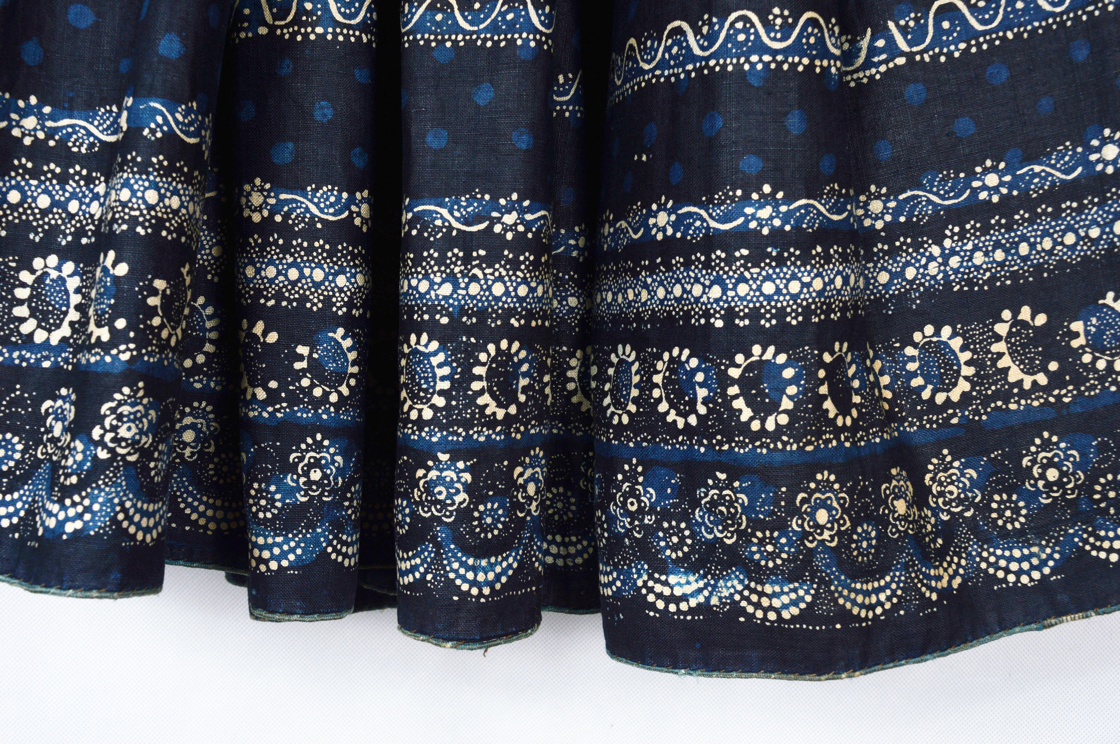 Highlander Podhale printed skirt "Farbanica" or "farbonica"- fabric detail. Collection of the Tatra Museum in Zakopane.